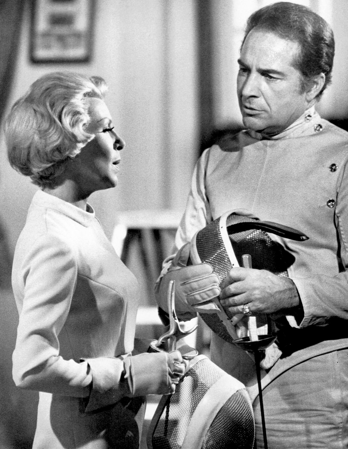 Scene from the prime time ABC soap opera The Survivors with Lana Turner and Rossano Brazzi. There are no copyright marks on the photo-front & back are shown at links above.